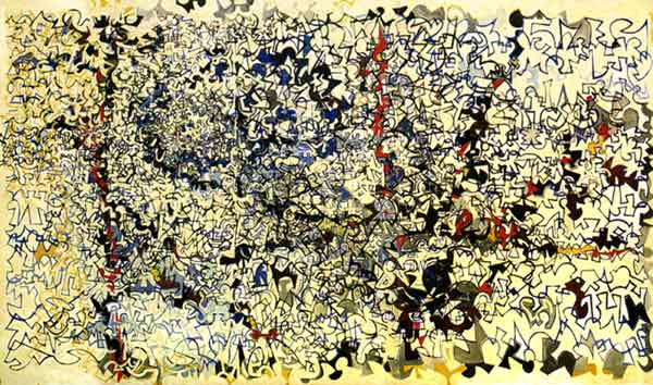 The Waters Of Lethe by Peter Graham Oil on canvas 168 x 289 cm PGAF#124